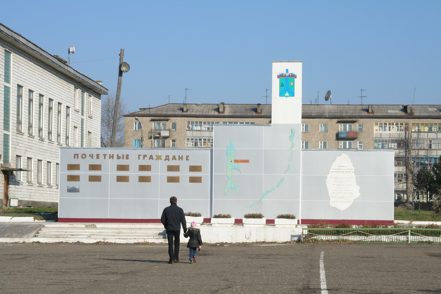 Central square in Tymovskoye